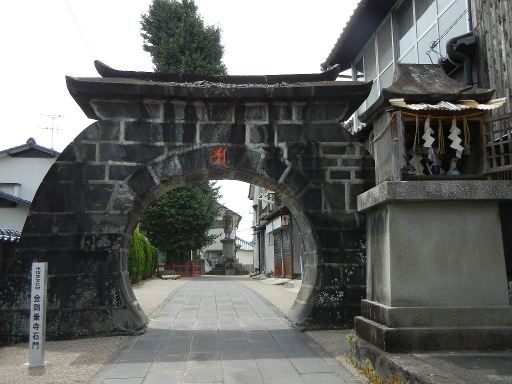 Yamaga-Kongoujouji-Ishimon. 熊本県山鹿市にある石門, Yamaga.